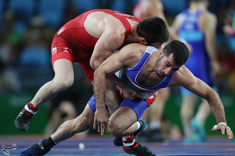 2016 Summer Olympics, Greco-Roman Wrestling 66 kg - Shmagi Bolkvadze v Omid Norouzi